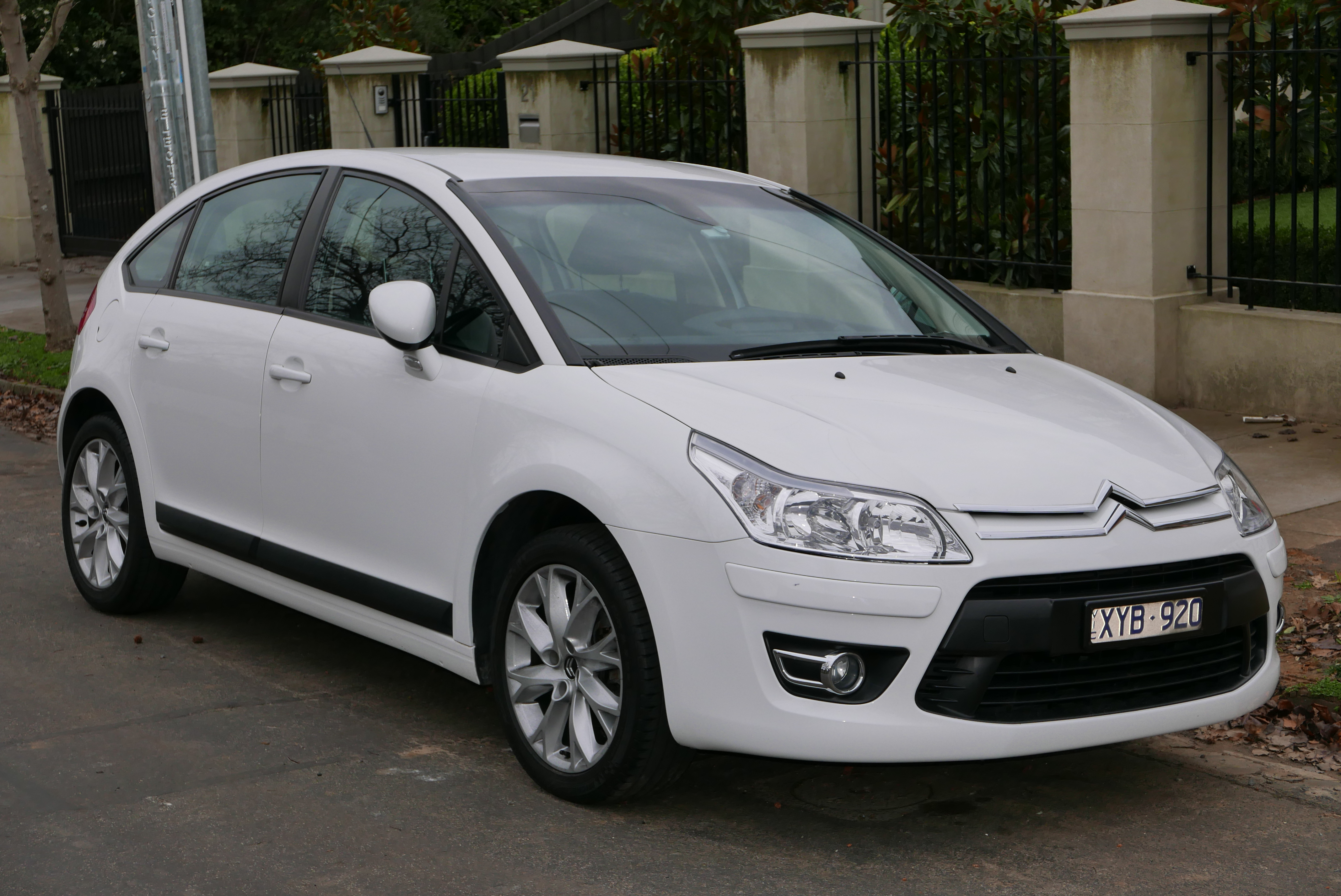 2010 Citroën C4 (MY09) Exclusive hatchback. Photographed in Kew, Victoria, Australia. Vehicle registration enquiry results Jurisdiction Victoria Registration XYB920 Chassis code VF7LC5FTFAY546518 Engine code 10FJBC0866269 Compliance date 2010-10 Year of manufacture 2010